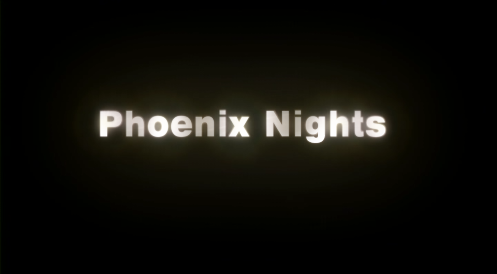 Phoenix Nights title sequence